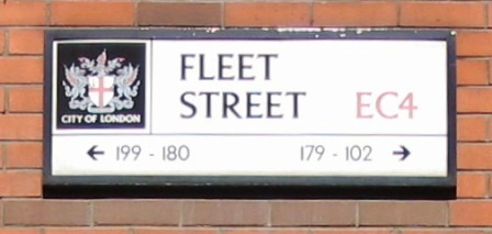 Fleet Street sign opposite Hoares Bankers. Photographed by user:Skyring April 2005.